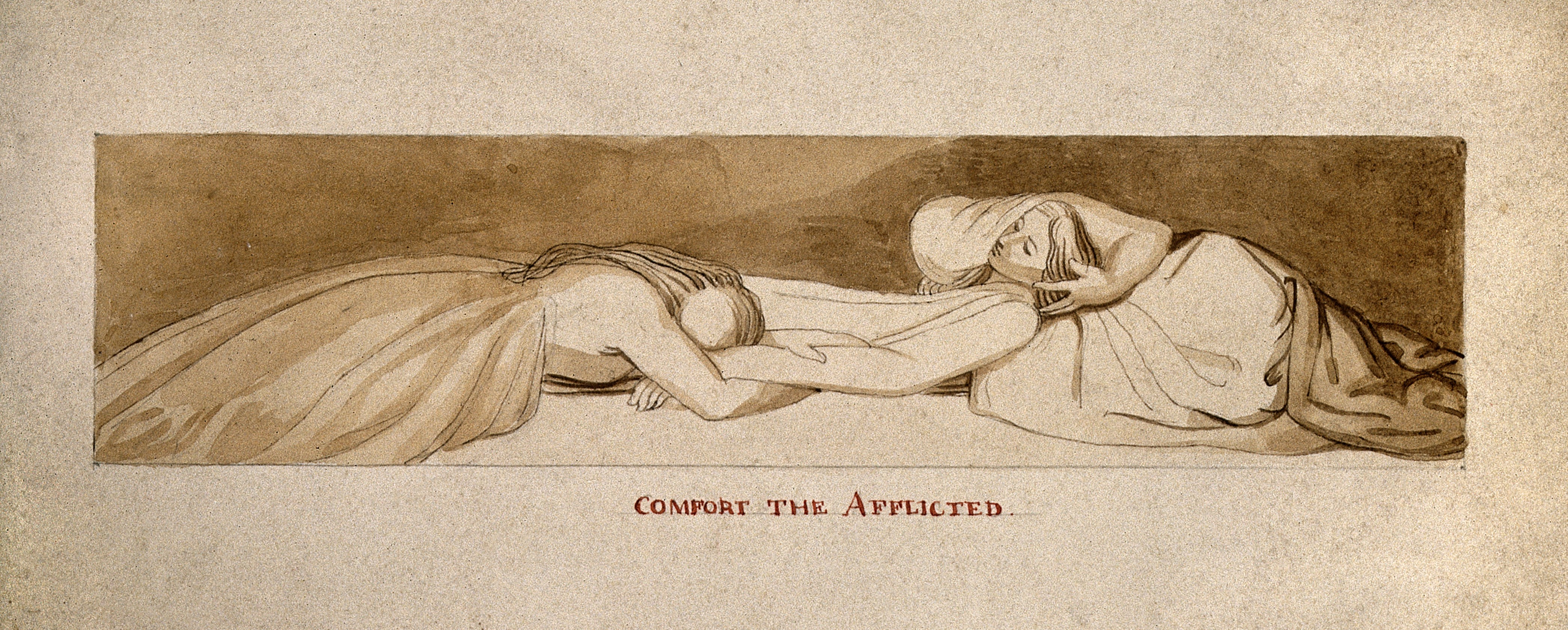 Two women weeping over a prone figure. Drawing, c. 1793. Iconographic Collections Keywords: Physiognomy; Johann Caspar Lavater; SORROW; Grief; Death; Thomas Holloway; johann caspar lavater; ic